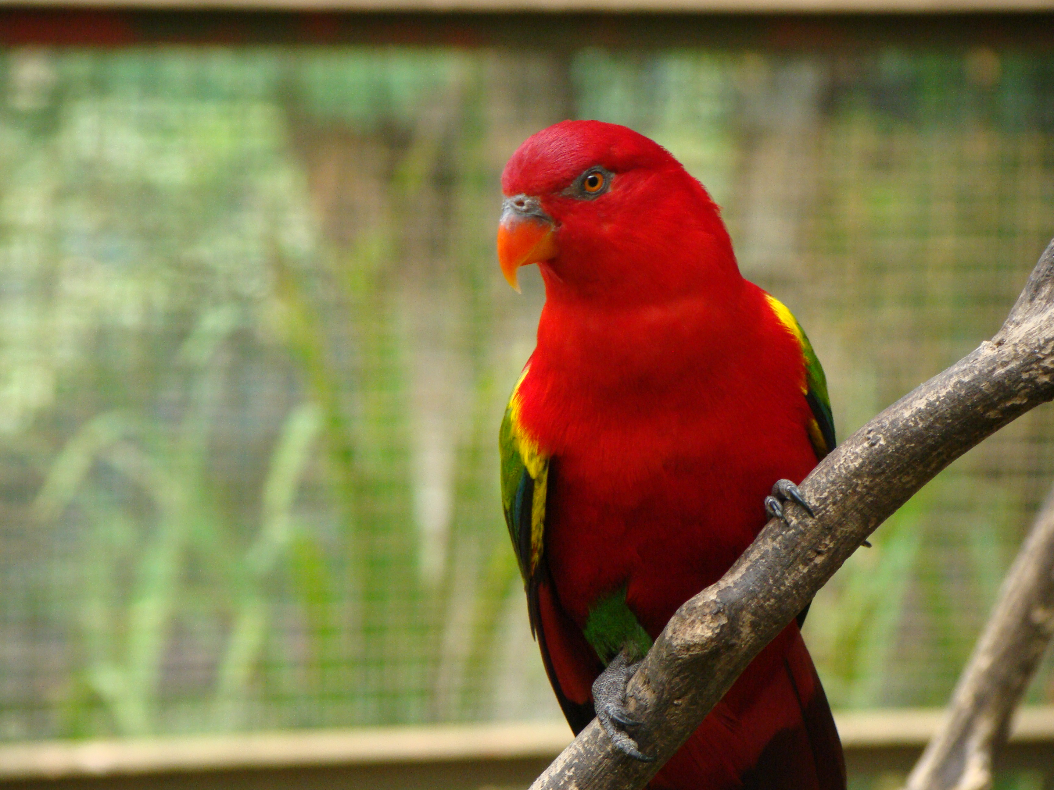 A Chattering Lory at Kuala Lumpur Bird Park, Malaysia.